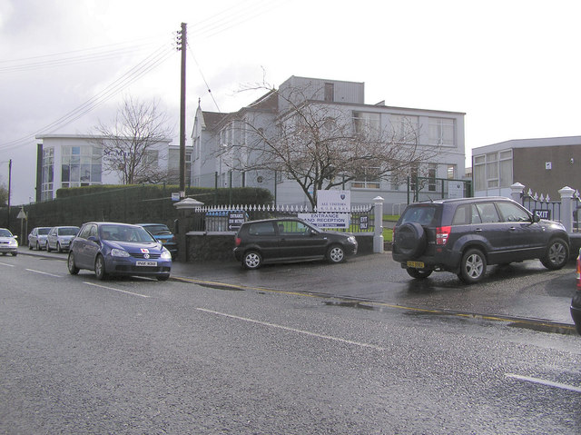 St Mary's Grammar School, Magherafelt. It is near the centre of the town